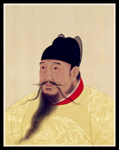 Emperor Taizong of Ming Dynasty China